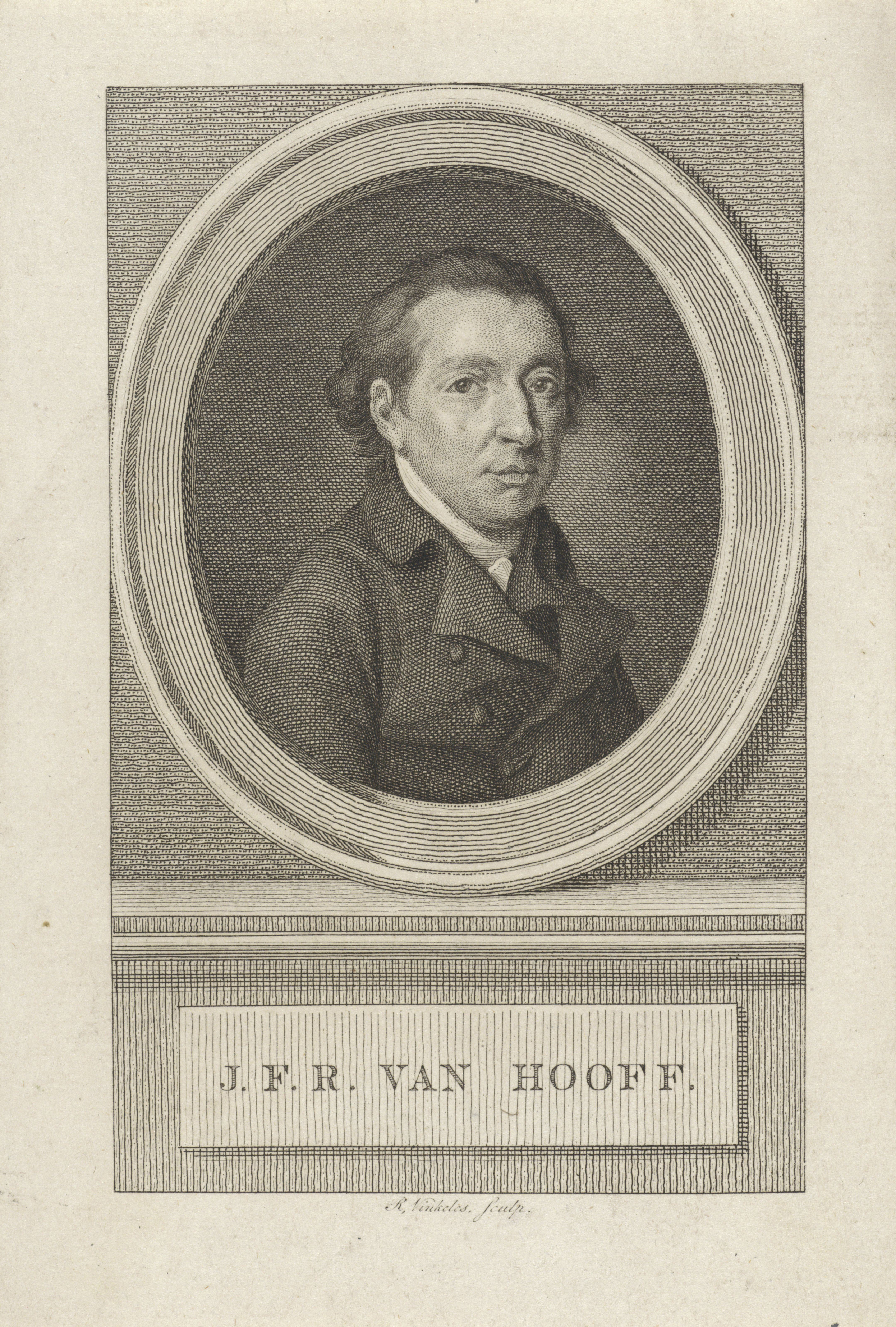 Portrait of Johan Frederik Rudolph van Hooff, Reinier Vinkeles, c. 1796